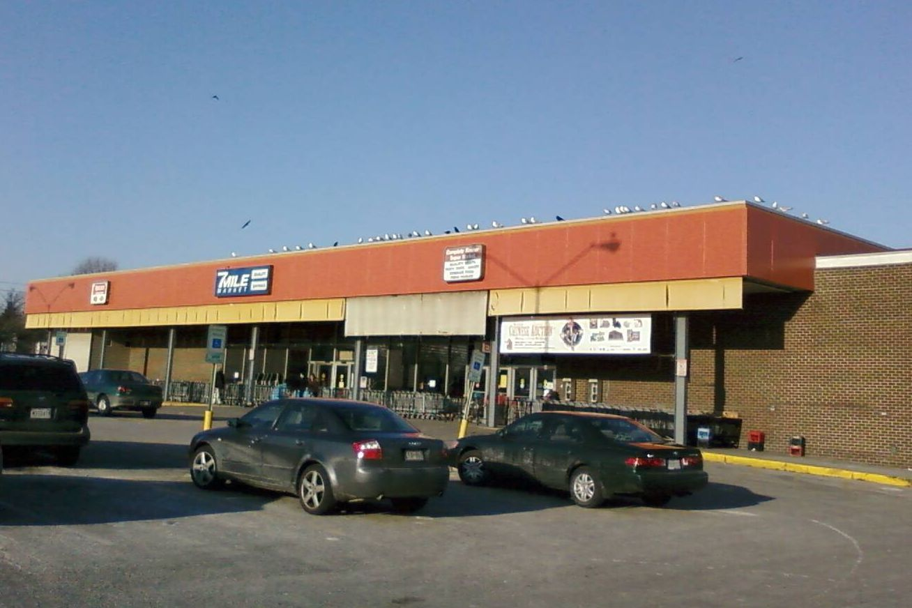 7 Mile Market, taken from public property